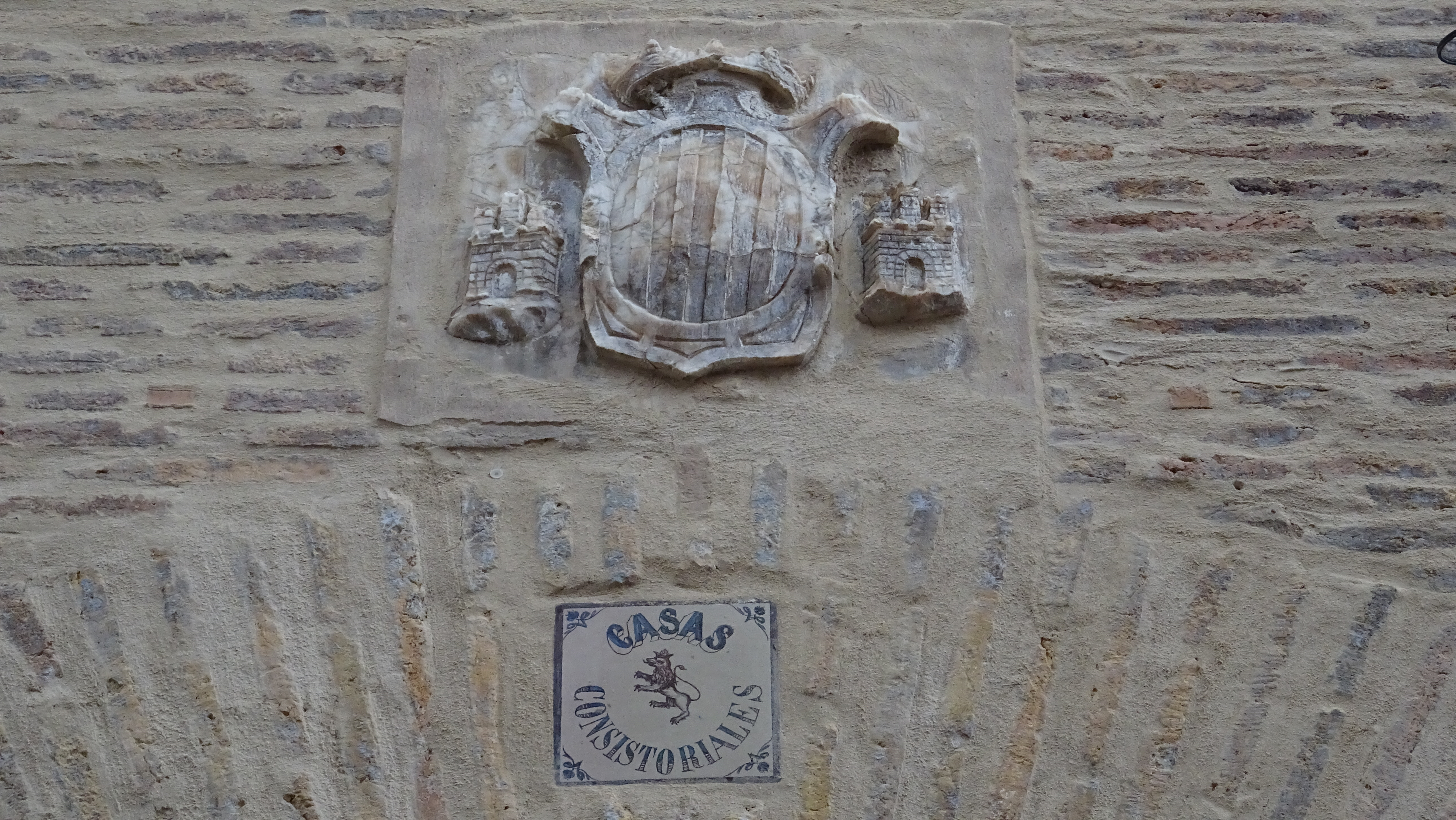 Coat of arms in the second town hall of Magallon (Aragon).